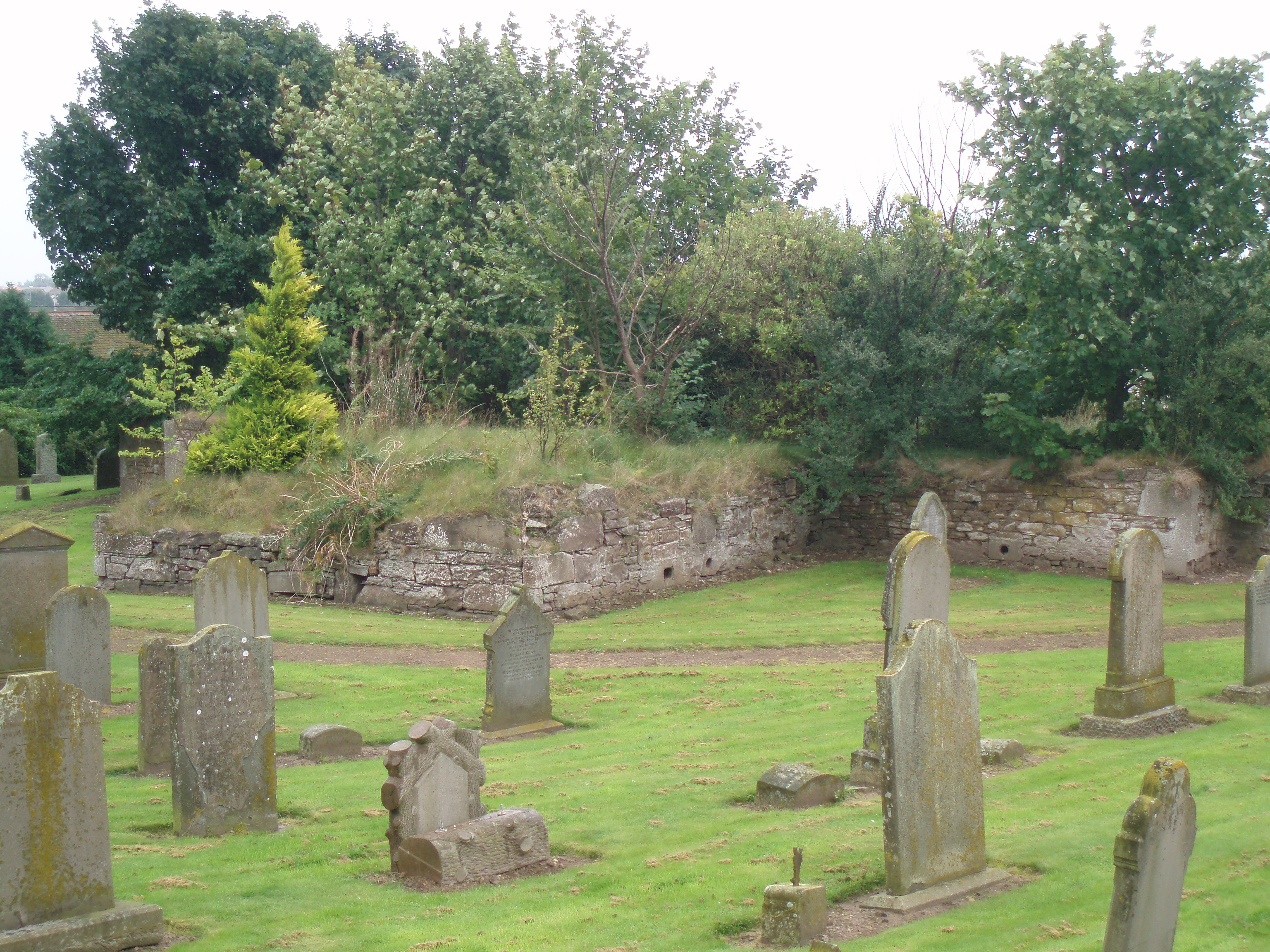 The old parish church at Barry (ruins)